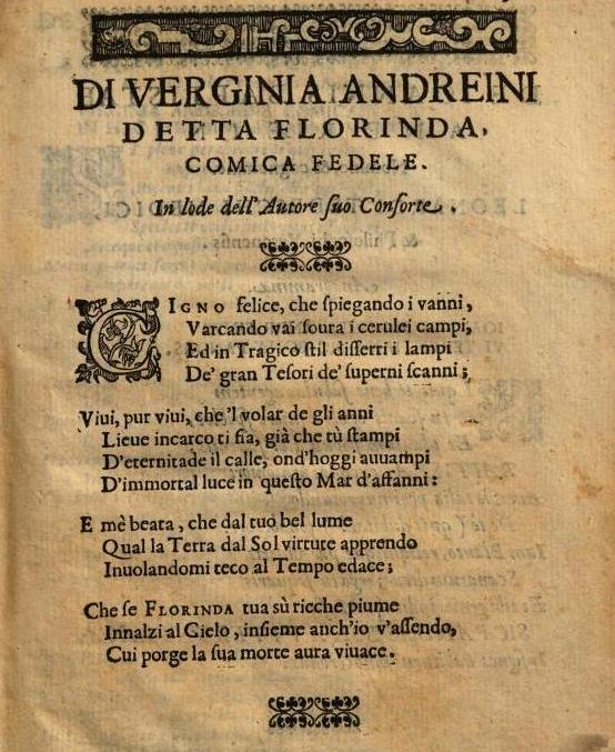 A poem by the Italian actress and singer, Virginia Ramponi-Andreini in praise of her husband Giambattista Andreini (1576 – 1654). It is part of the introductory material published in the 1606 edition of his play La Florinda. The original book is held in the public library of Lyon.